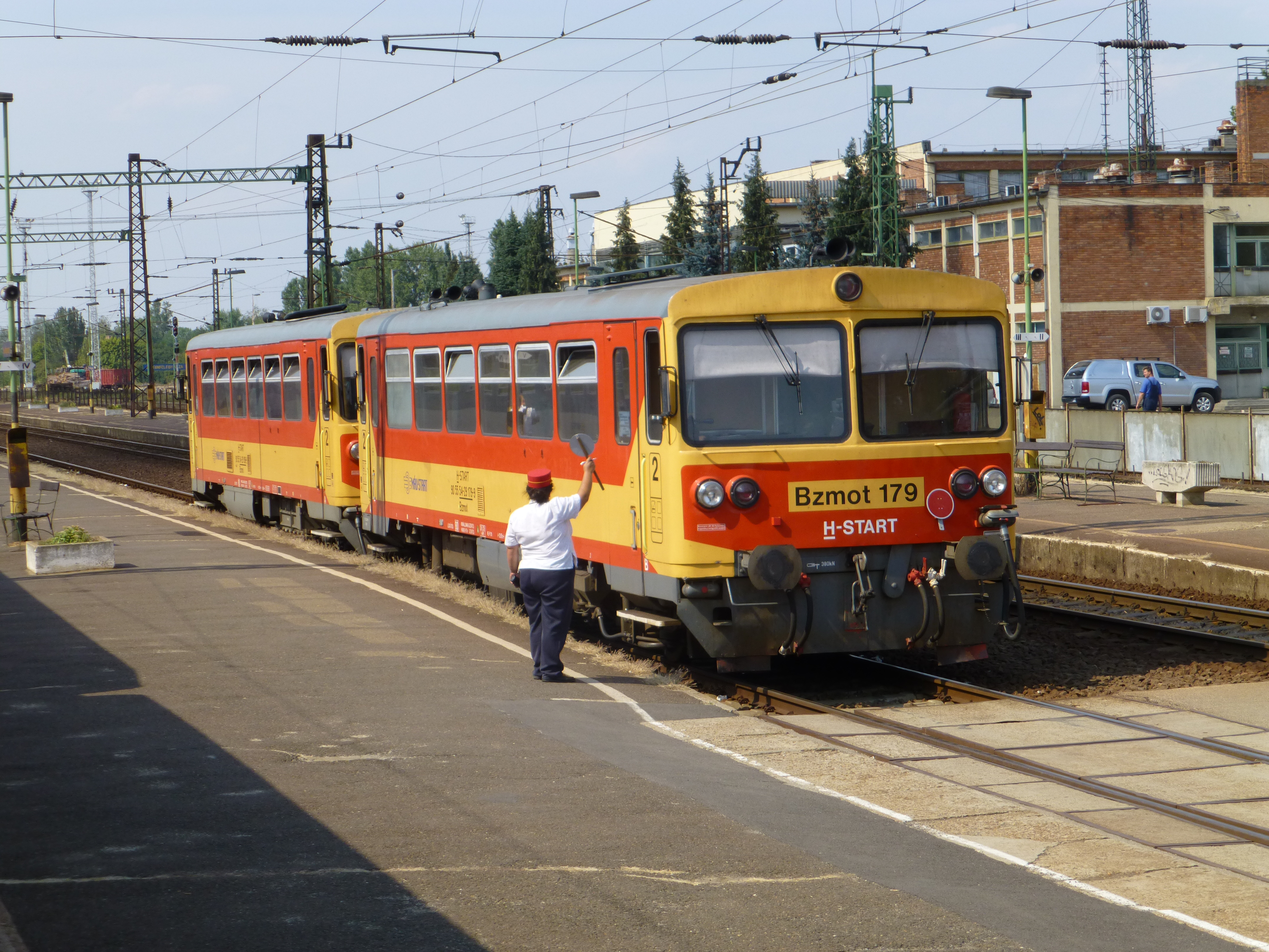 Departure of the MÁV-Start's train no. 37215 from Kiskunfélegyháza to Szentes, via Lakitelek.